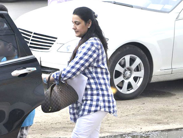 Amrita Singh snapped in Andheri